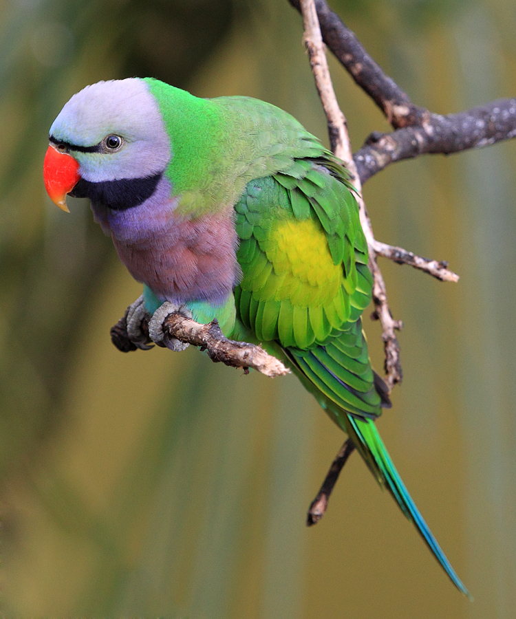 Red-breasted Parakeet at Brooklands Zoo, New Plymouth, New Zealand.